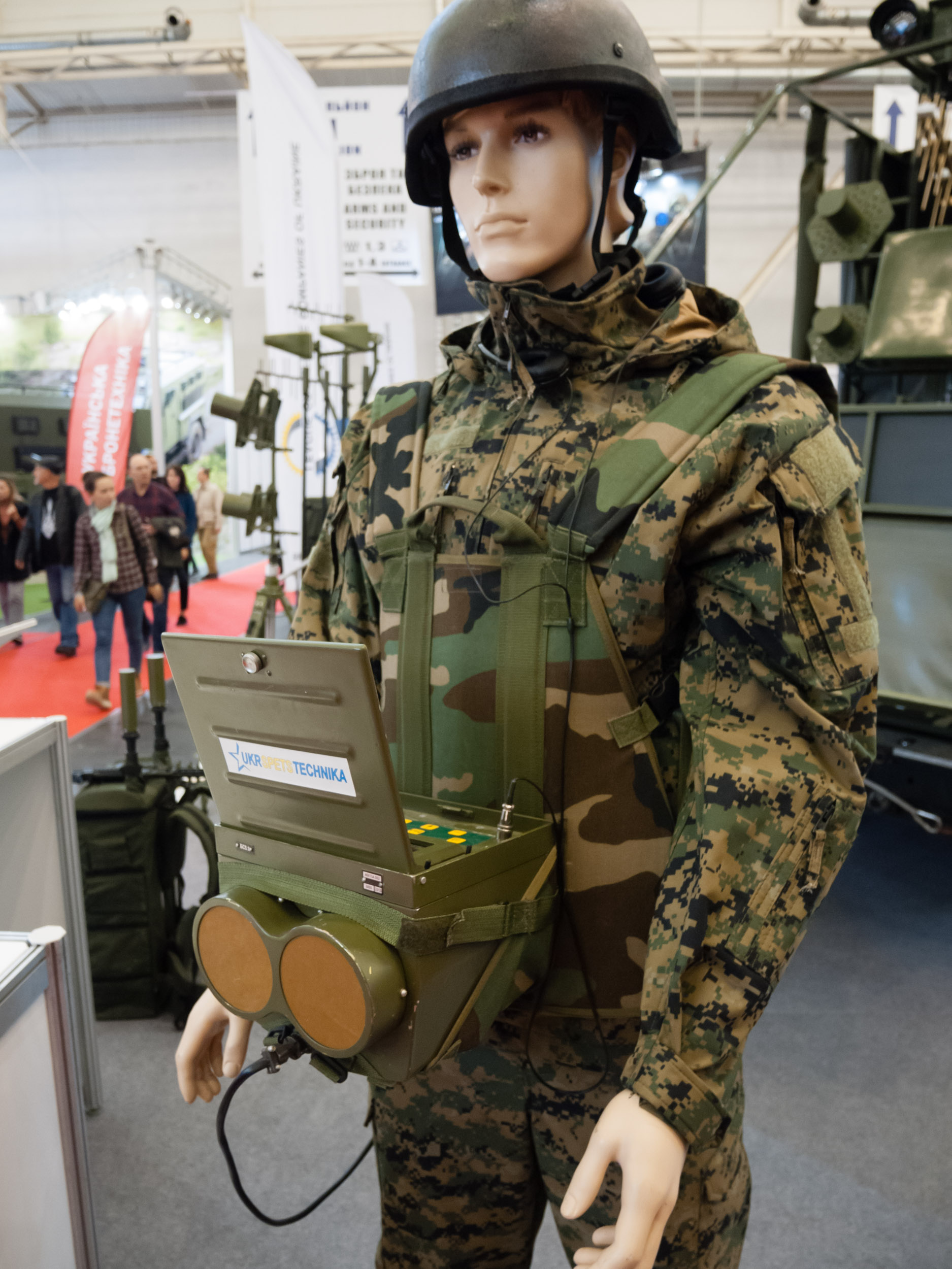 Borsuk radar by Ukrspetstechnika (Ukraine) at 'Zbroya ta Bezpeka' military fair, Kyiv, Ukraine, 2018